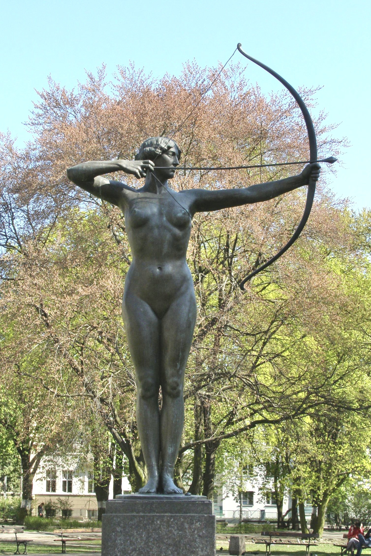 Łuczniczka (Archer) - monument in Bydgoszcz